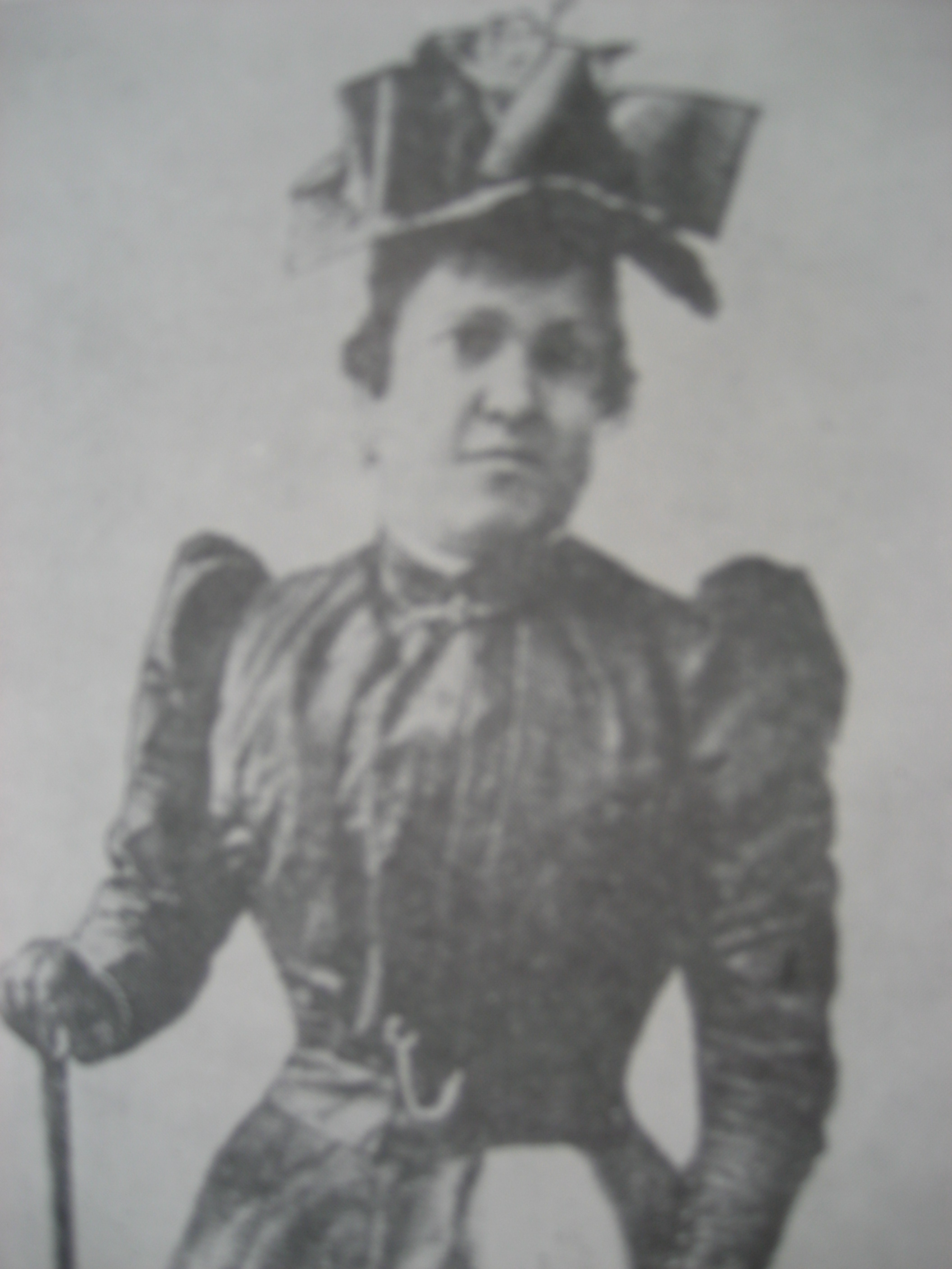 Photograph of Eusapia Palladino.